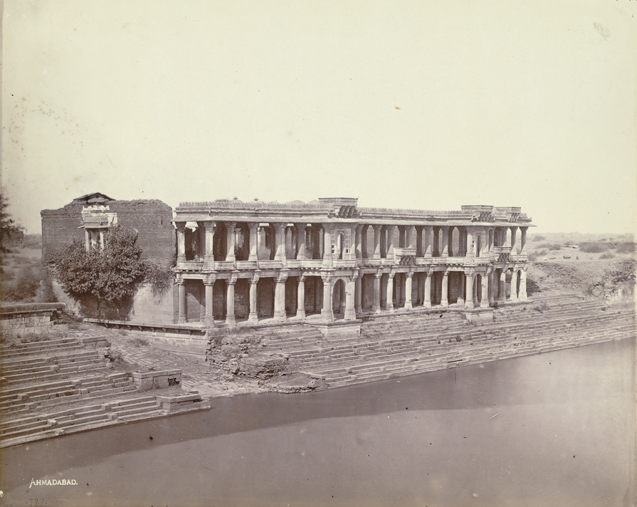 Ruined palace or harem on the west side of the Great Tank, Sarkhej, near Ahmadabad